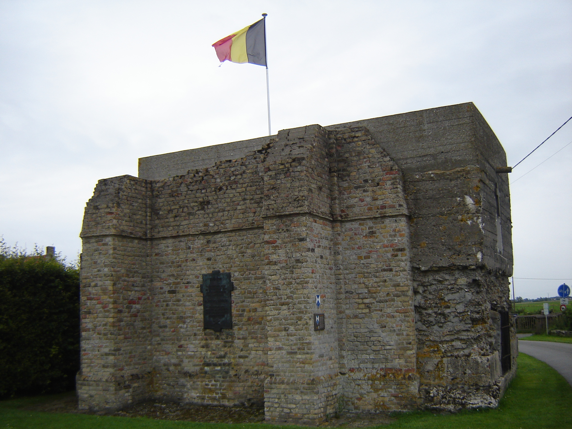 Restored base of the tower of the former church of Saint Peter in the former village center of Stuivekenskerke. Church was pulled down in 1870, except for its tower. The tower was destroyed during World War I however. Stuivekenskerke, Diksmuide, West Flanders, Belgium